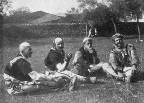 Edith Durham (8 December 1863 – 15 November 1944) was a British traveller, artist and writer who became famous for her anthropological accounts of life in Albania in the early 20th century. This picture was featured in the book "High Albania", published in 1909.